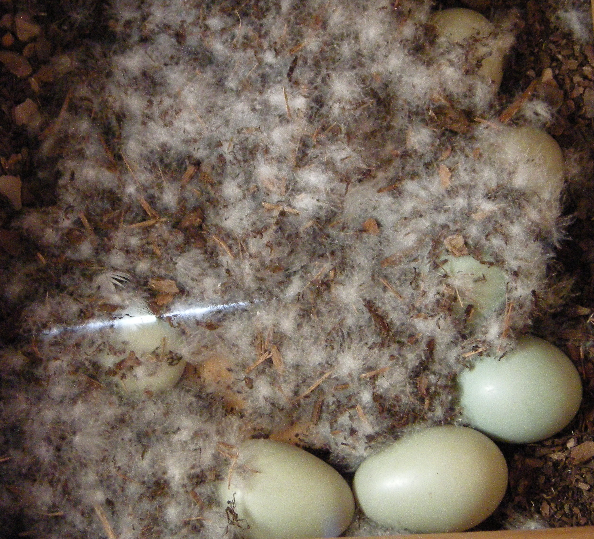 Eggs from the Common Goldeneye (Bucephala clangula)